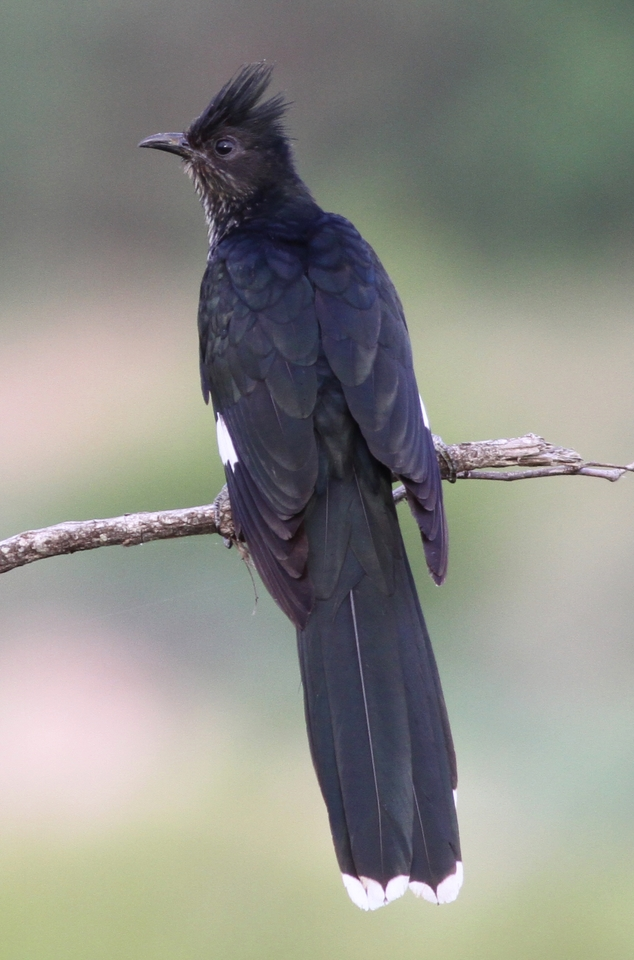 Levaillant's Cuckoo, or African Striped Cuckoo, Clamator levaillantii, at Shingwedzi, Kruger Park